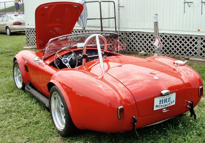 427 A/C Shelby America CSX 4109 Cobra Signature Series #3 of 4 Motors were engineered and developed by Ernie & Bill Elliot with Ford Motor Co. Estimated Value: $250,000